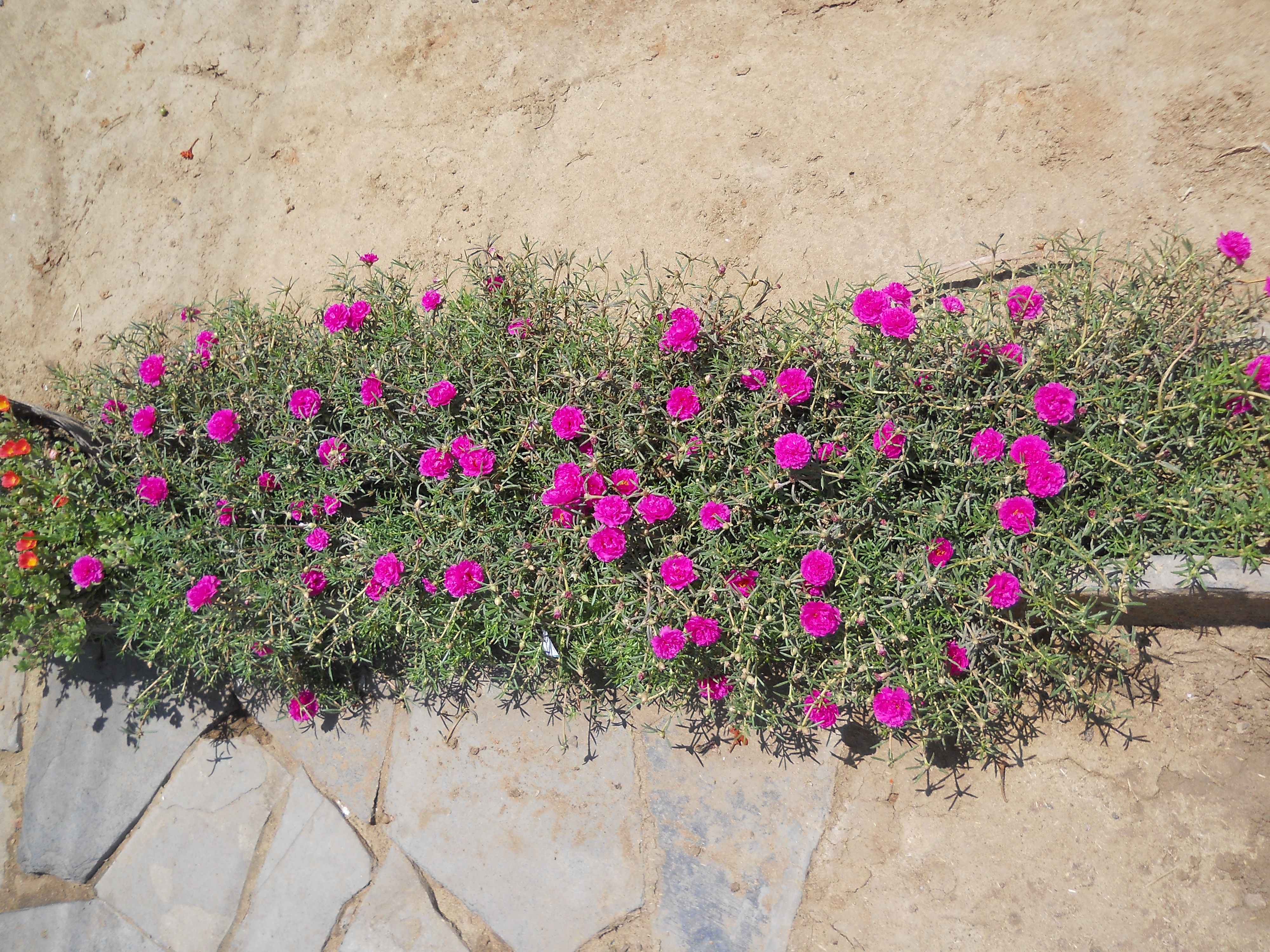 Portulaca grandiflora (Indian Table Rose) at Vinjamoor, Nellore (dt),A.P.